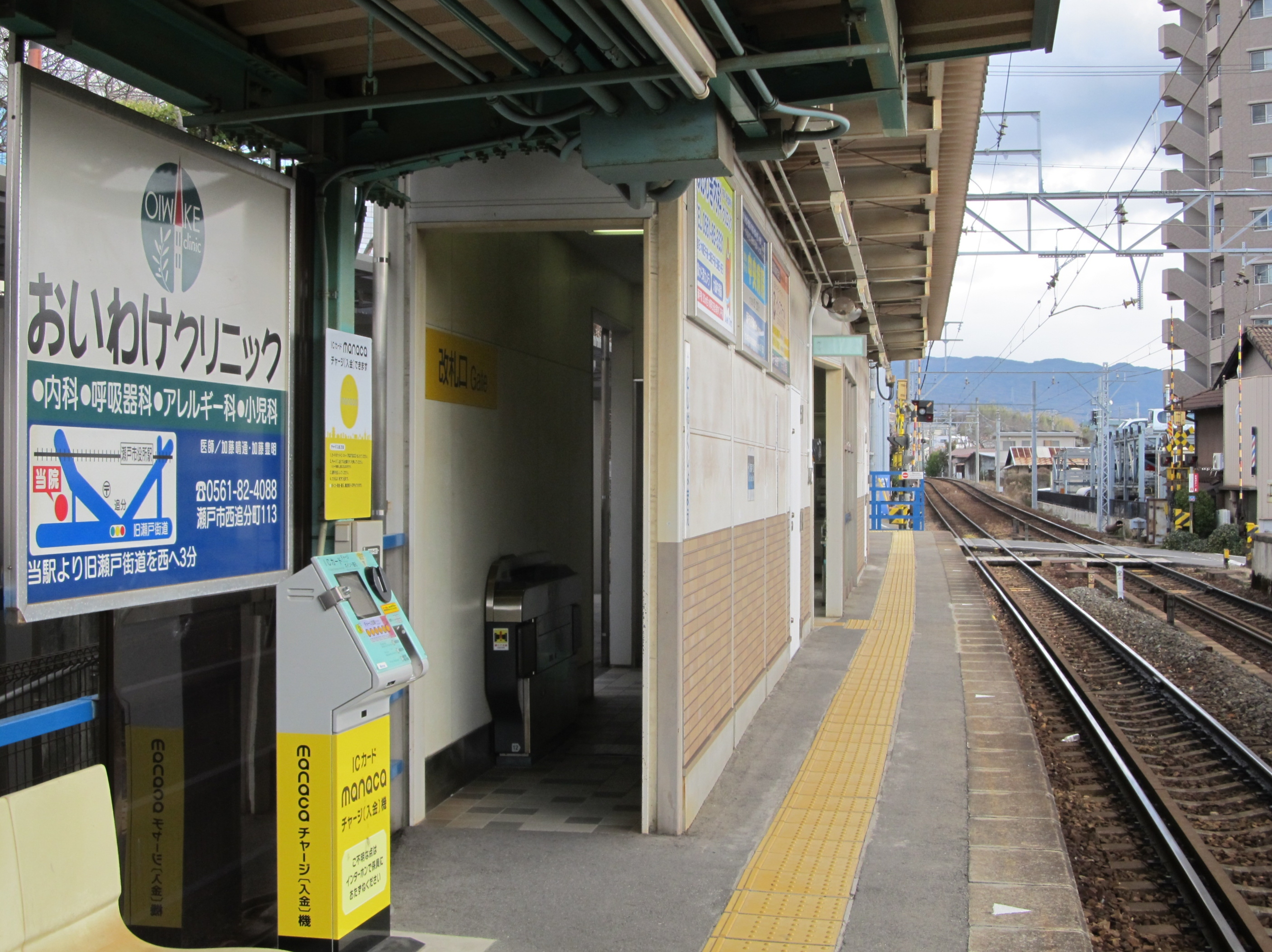 Nagoya Railroad Seto Line Seto-Shiyakusho-mae Station Building (for Owari Seto)